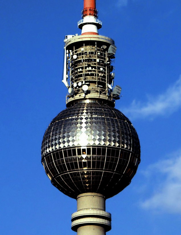 Berliner Fernsehturm at Berlin